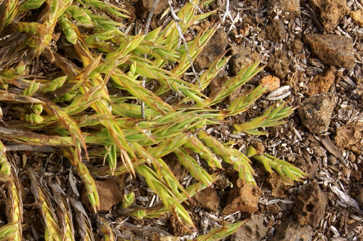 Panicum lycopodioides (detail), creeping grass endemic to highlands of Réunion island